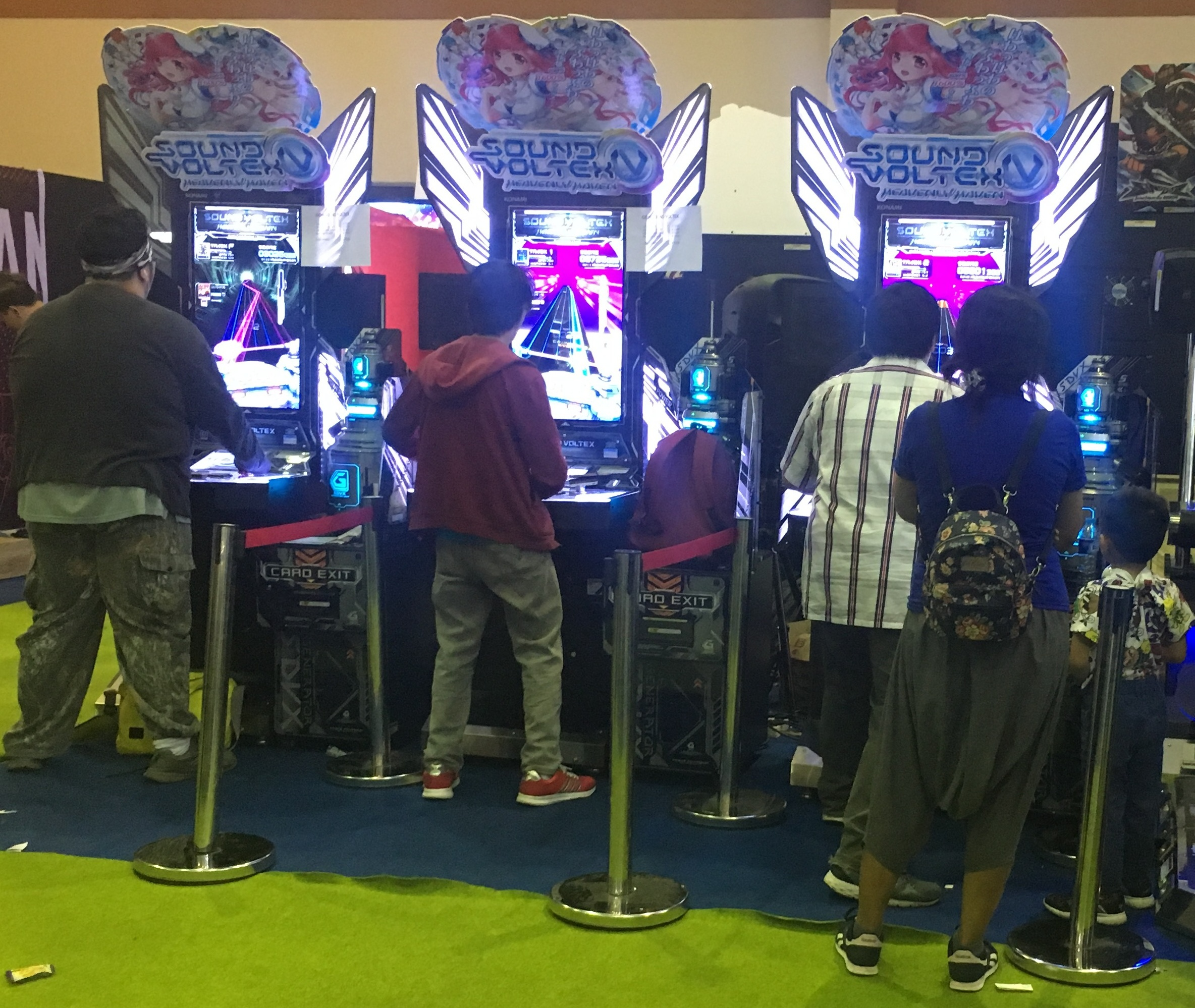 People playing SOUND VOLTEX IV HEAVENLY HAVEN at 2017 Indonesia Comic Con